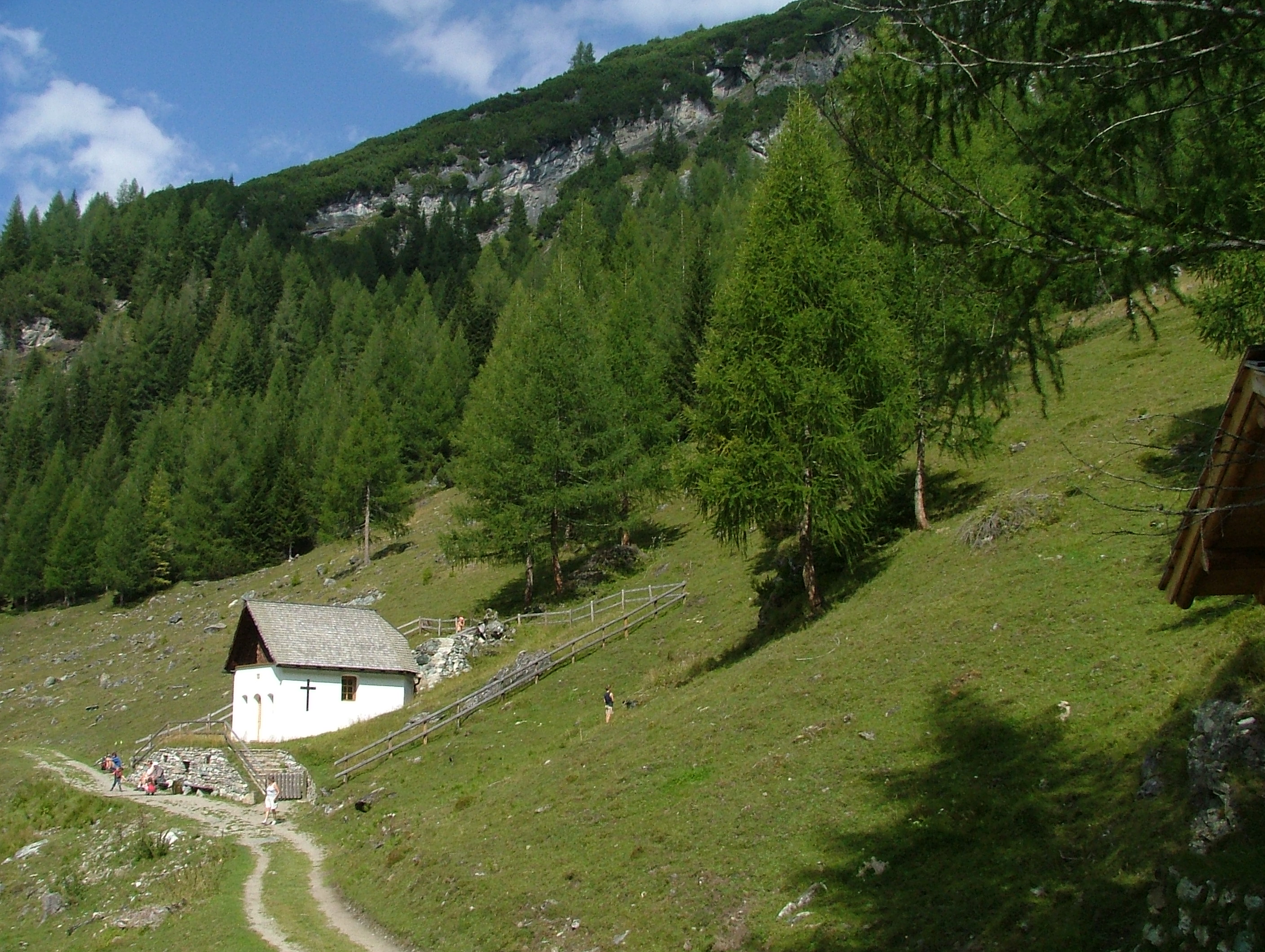 chapel "Briccius"